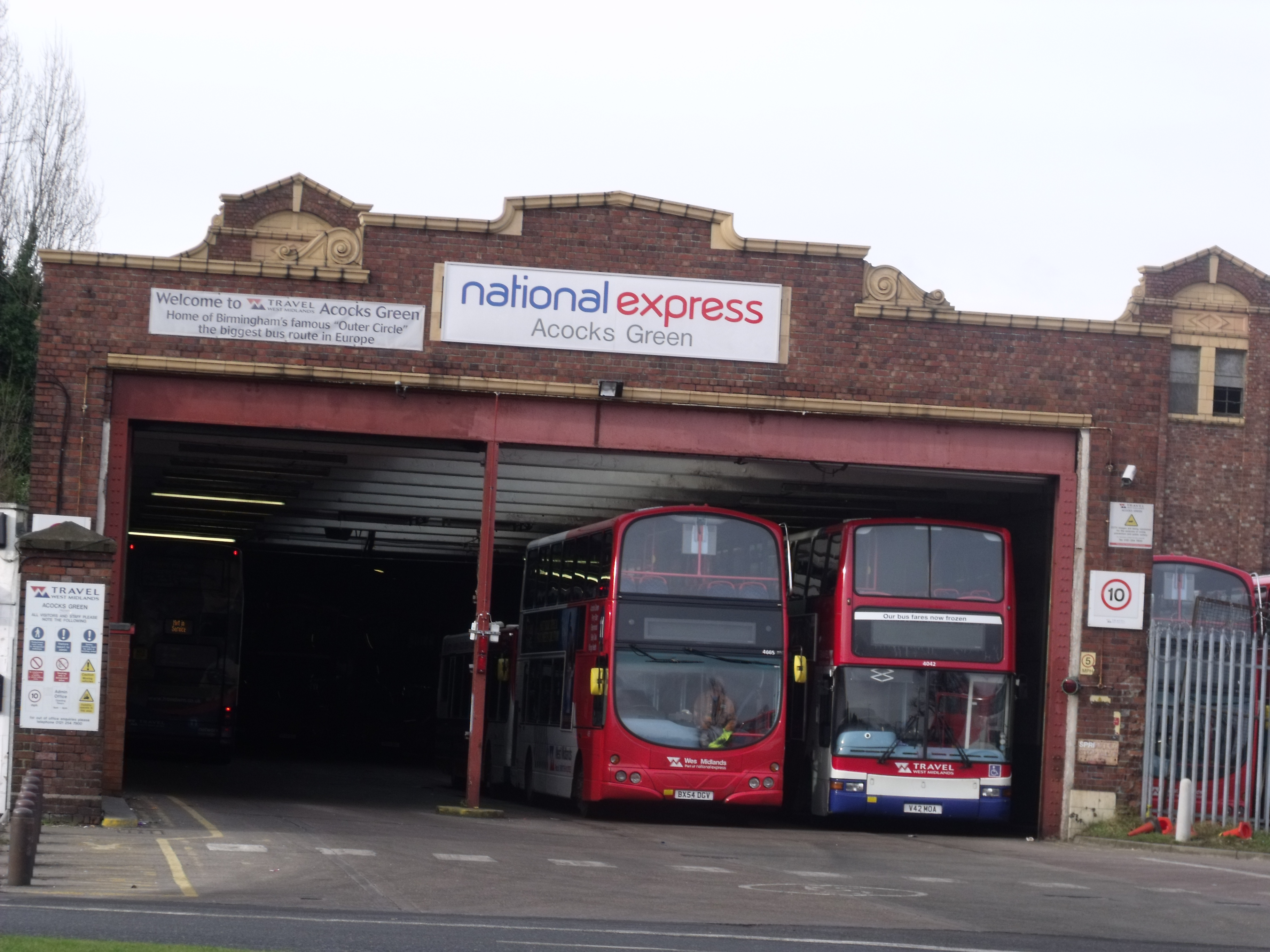 My local bus garage. Saw a possibly shot going on the bus towards Acocks Green, and took it walking back. It is on Fox Hollies Road, directly ahead of Westley Road. These are the two buses that made me think it would make an interesting shot. Bus no.'s 4665 and 4042. The bus on the left is a no 11 bus (could be used on both 11A and 11C I would guess). Taken from the other side of the road as I left Westley Road for Fox Hollies Road. 4665 is a Volvo B7TL / Wright Eclipse Gemini. 4042 is a Volvo B7TL / Plaxton President.